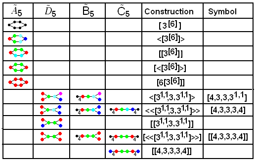 Coxeter-Dynkin diagrams for affine Coxeter group symmetries